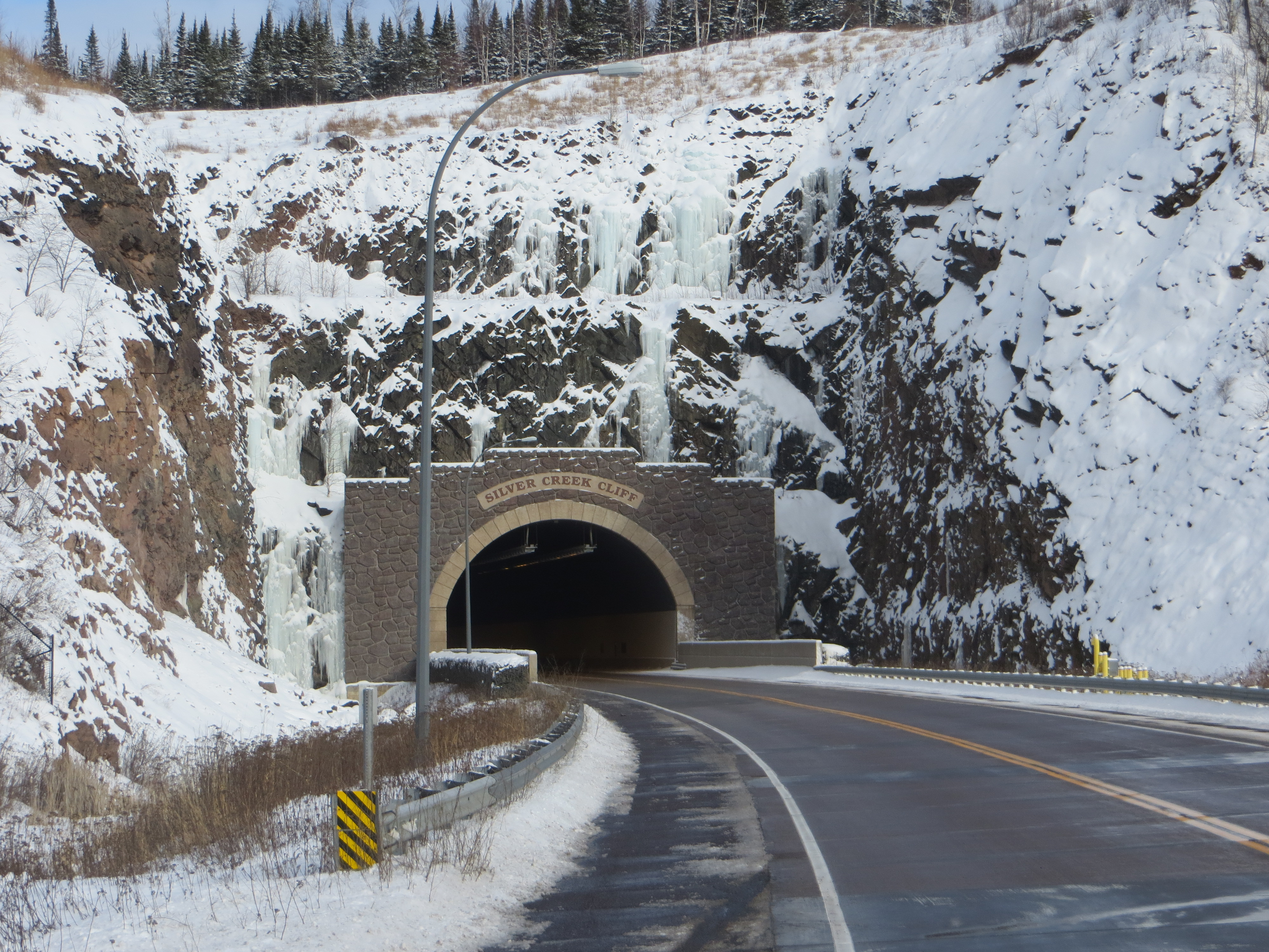 Silver Creek Cliff Tunnel, Lake County, Minnesota.